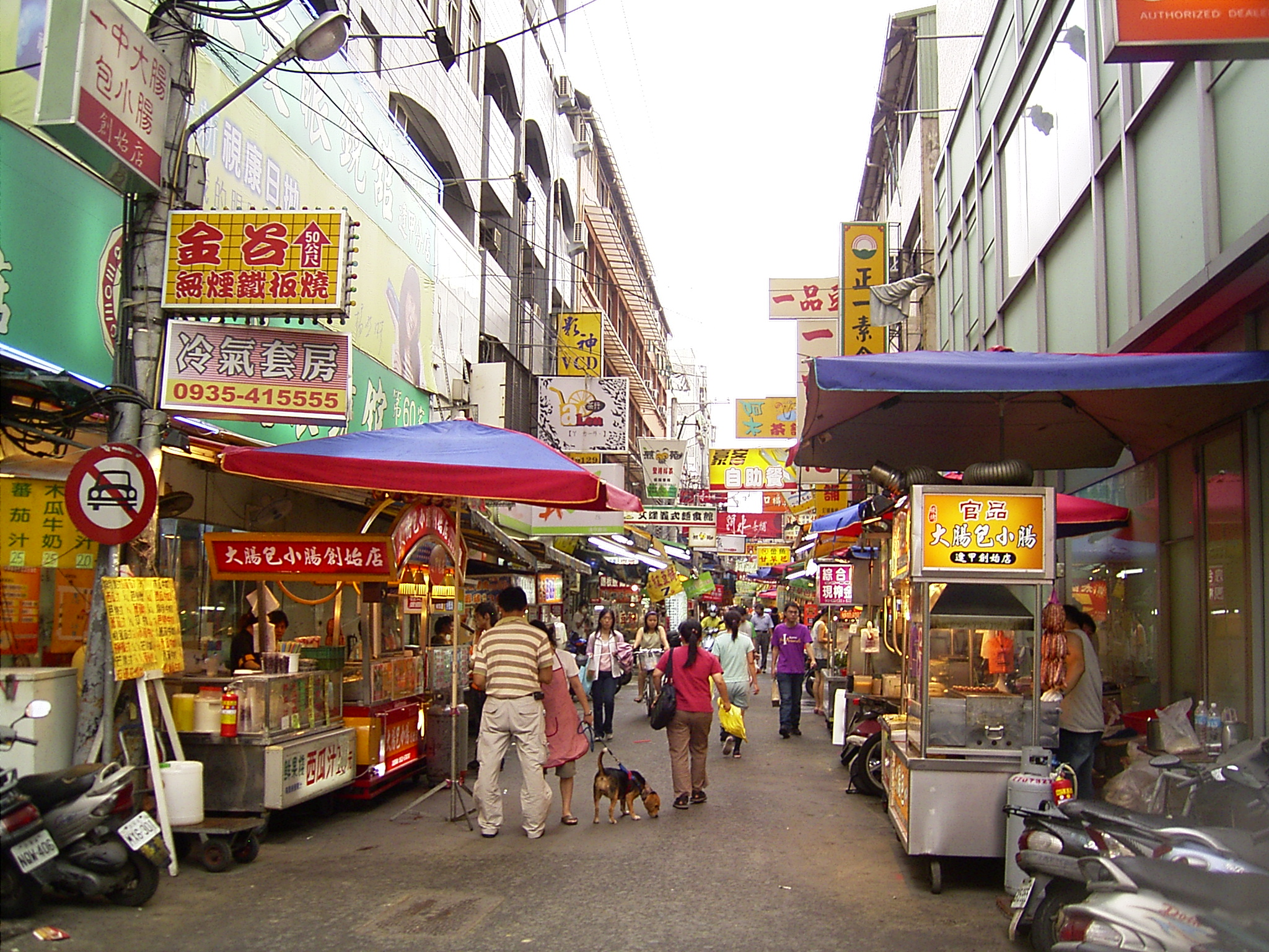 Lane 20, Fengjia Rd. intersecion in Taichung City, a lane in Feng Chia Night Market. This lane is also called "Bento Street".